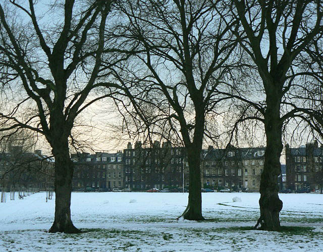 Leith Links Looking across the park with Links Gardens at the far end.